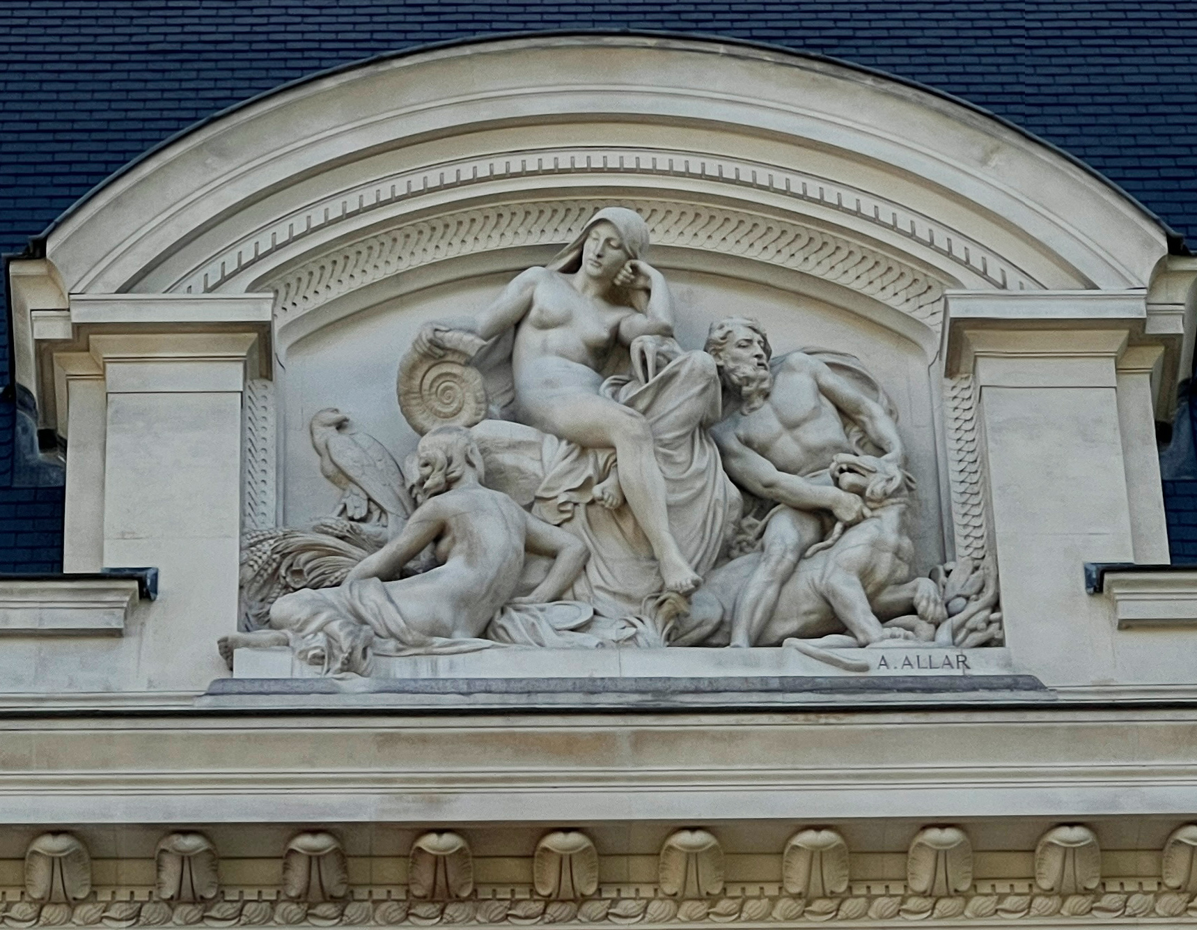 Pediment (sculpture by André-Joseph Allar, 1898) over the main entrance on the façade of the Gallery of Paleontology and Comparative Anatomy in the Jardin des plantes in Paris, France.